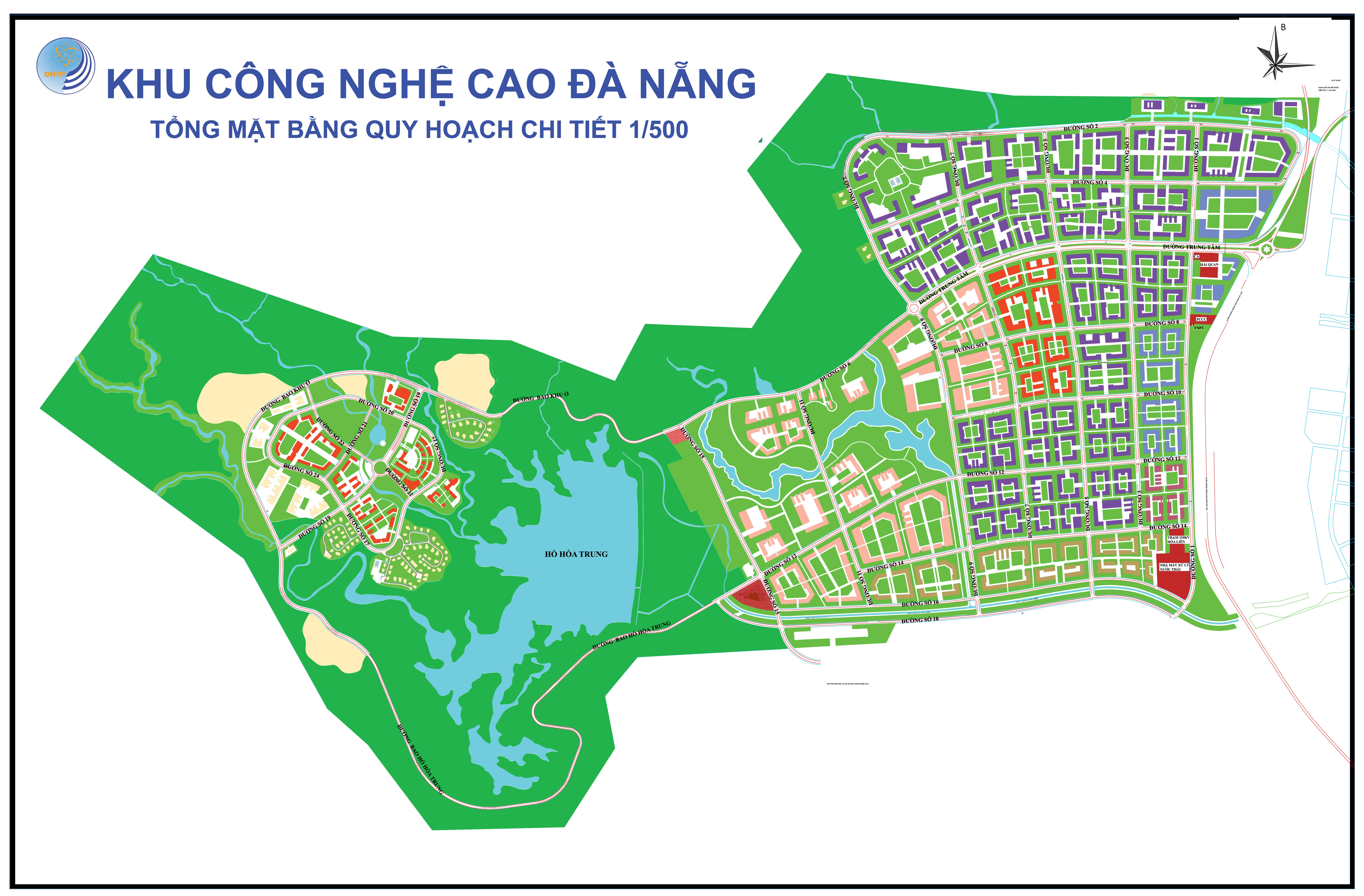 Detailed Planning of DHTP site